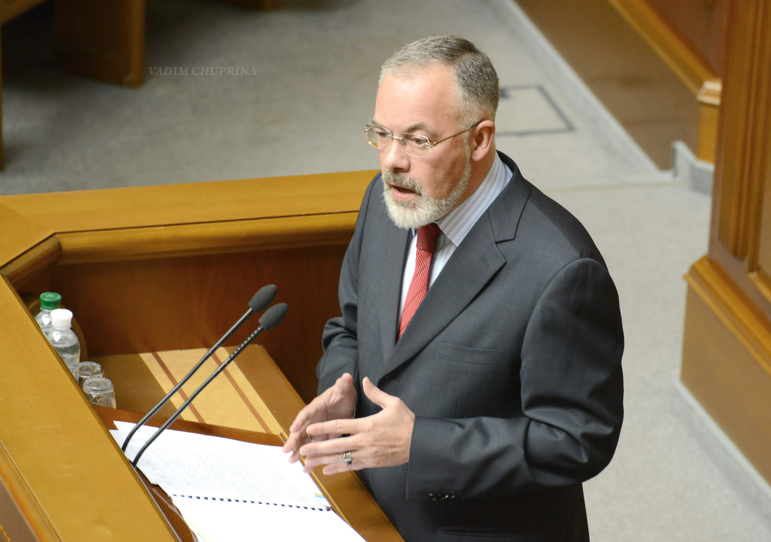 Ukrainian politicians VADIM CHUPRINA